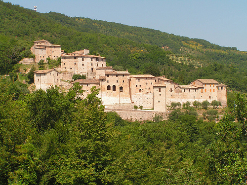 panoramic view of Vestignano